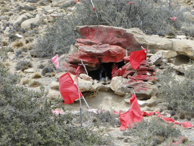 Monument to the perished driver